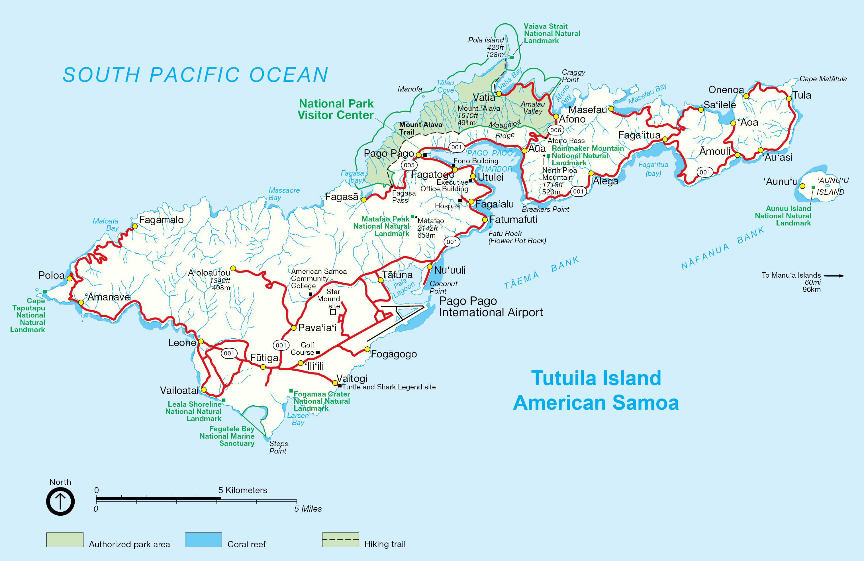 Detail map of Tutuila Island in American Samoa